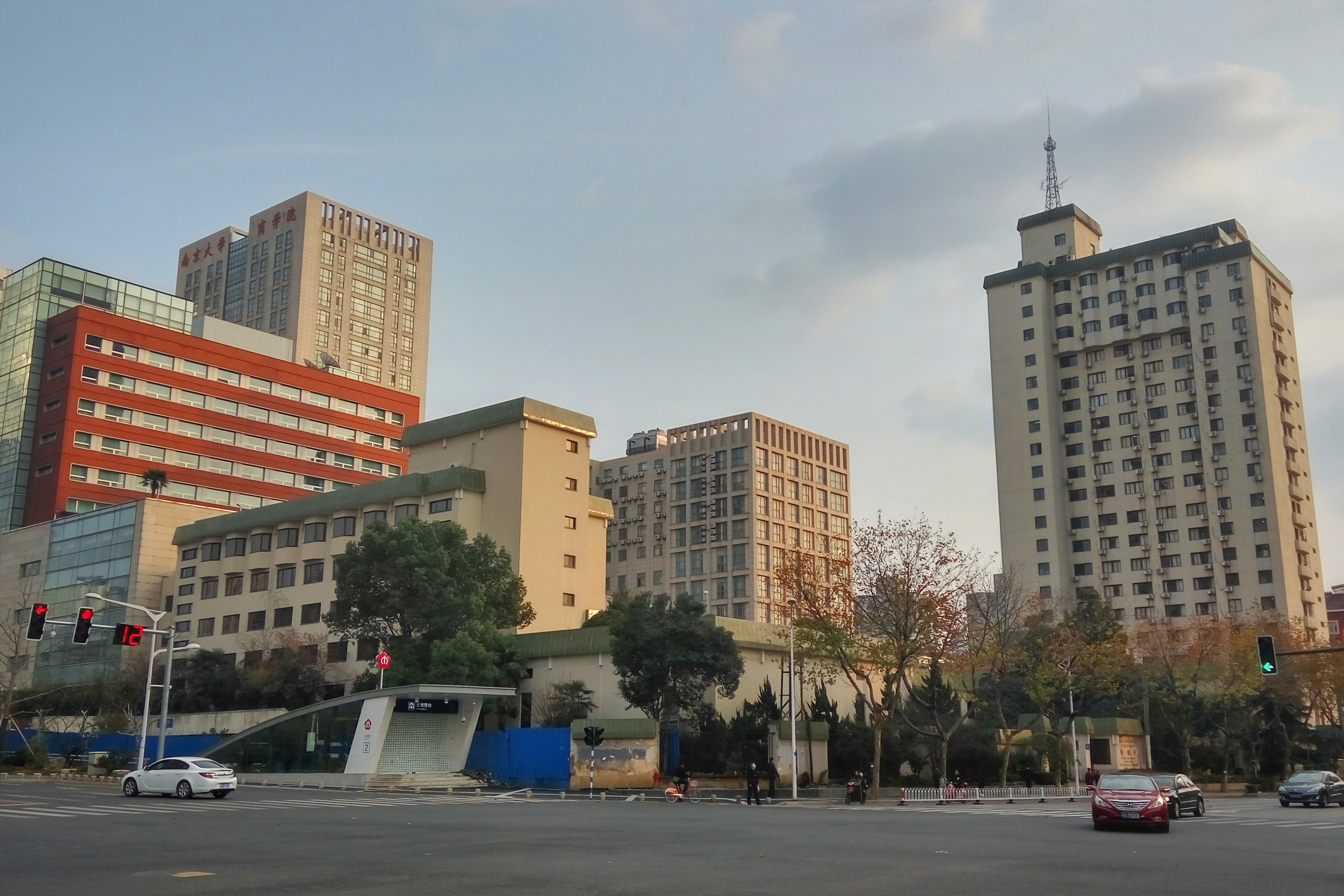 The northwestern corner of Nanjing University's Gulou campus. (From left-right) Center for Chinese American Studies, Business School, Zeng Xianzi Building, and Xiyuan.